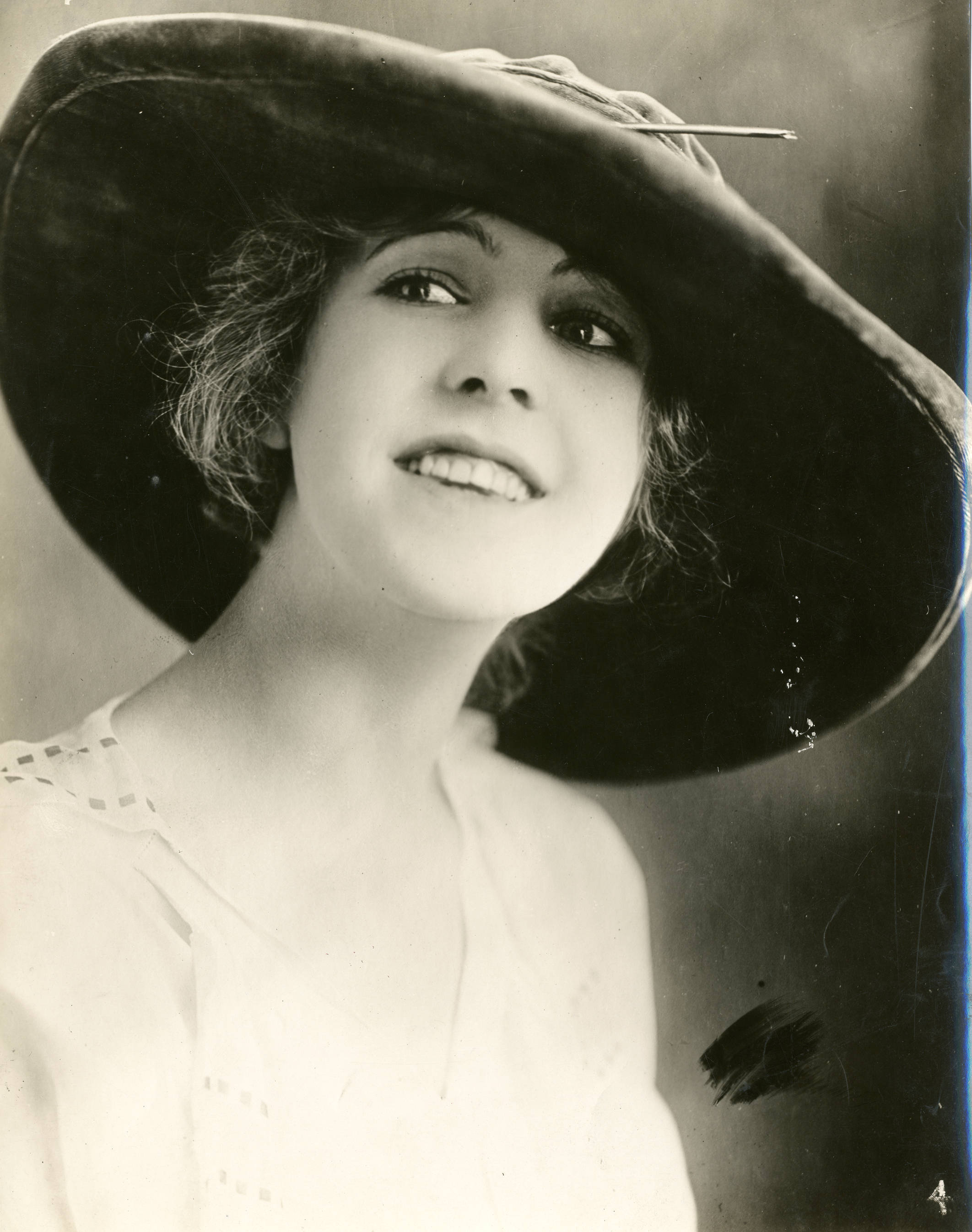 Silent films actress Jewel Carmen. Subjects: actresses